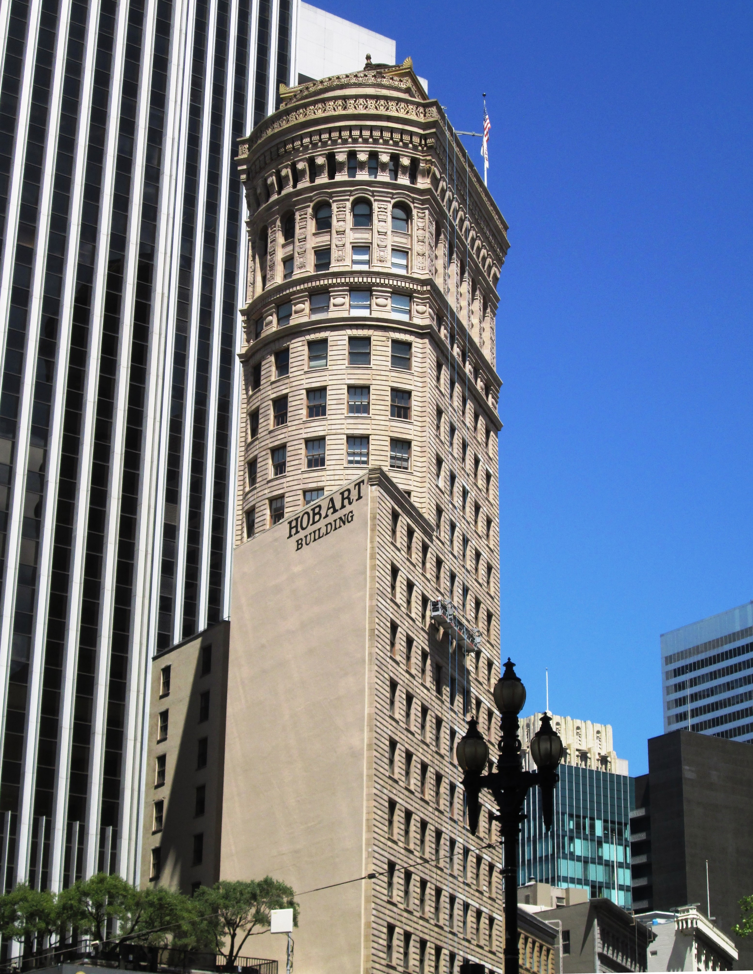 The Hobart Building is an office high rise located at 582–592 Market Street, near Montgomery and 2nd Streets, in the financial district of San Francisco. It was completed in 1914 after only eleven months, which led to accusations that it had been constructed with a degree of recklessness. It was at the time the second tallest building in the city, at 21 floors and 87 m (285 ft). It was designed by Willis Polk; its odd shape is due to the asymmetircal dimensions of the plot of land it is on, made odder still by the razing of a neighboring building.